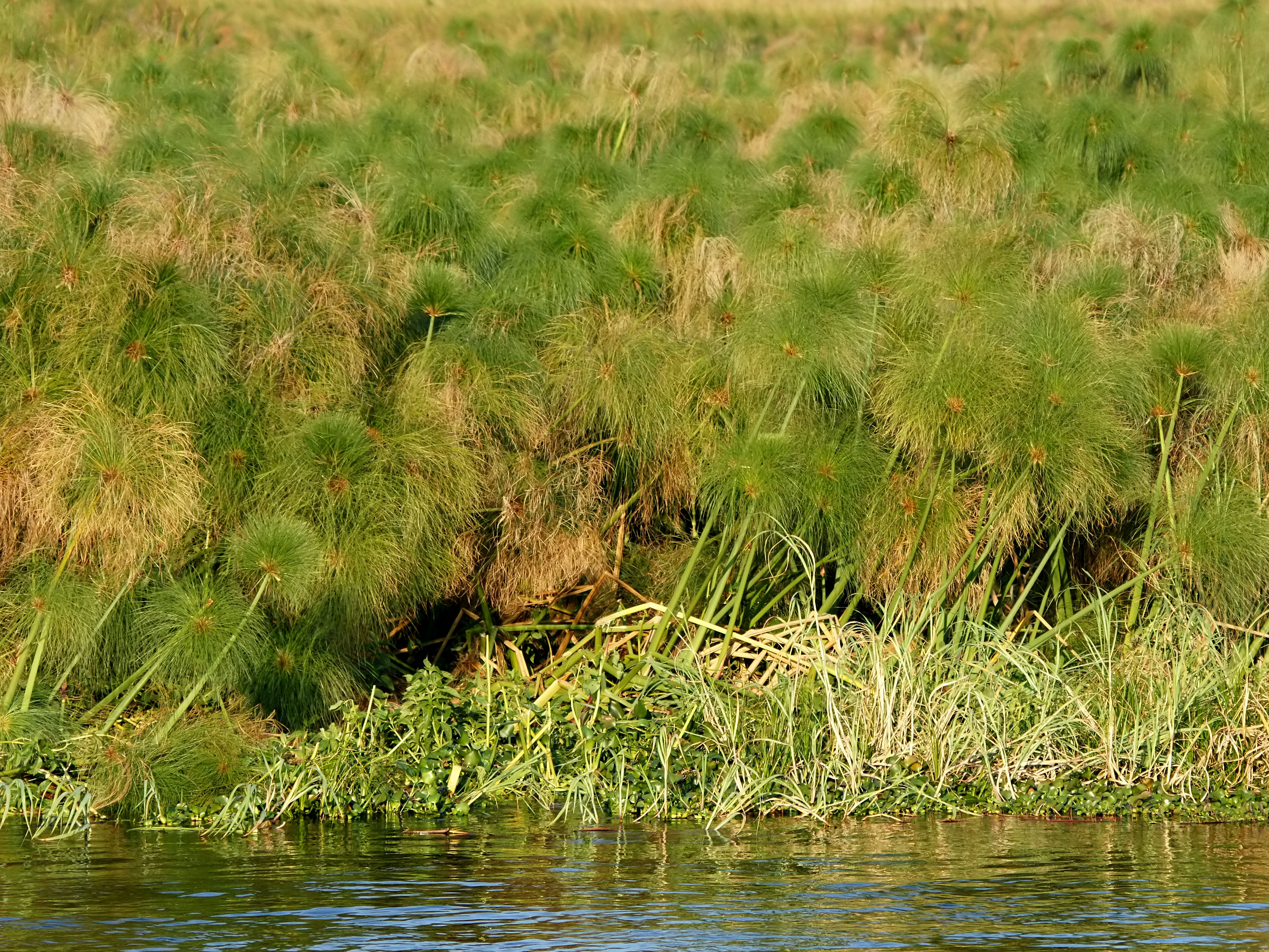 Papyrus along the Kafue river, Zambia.